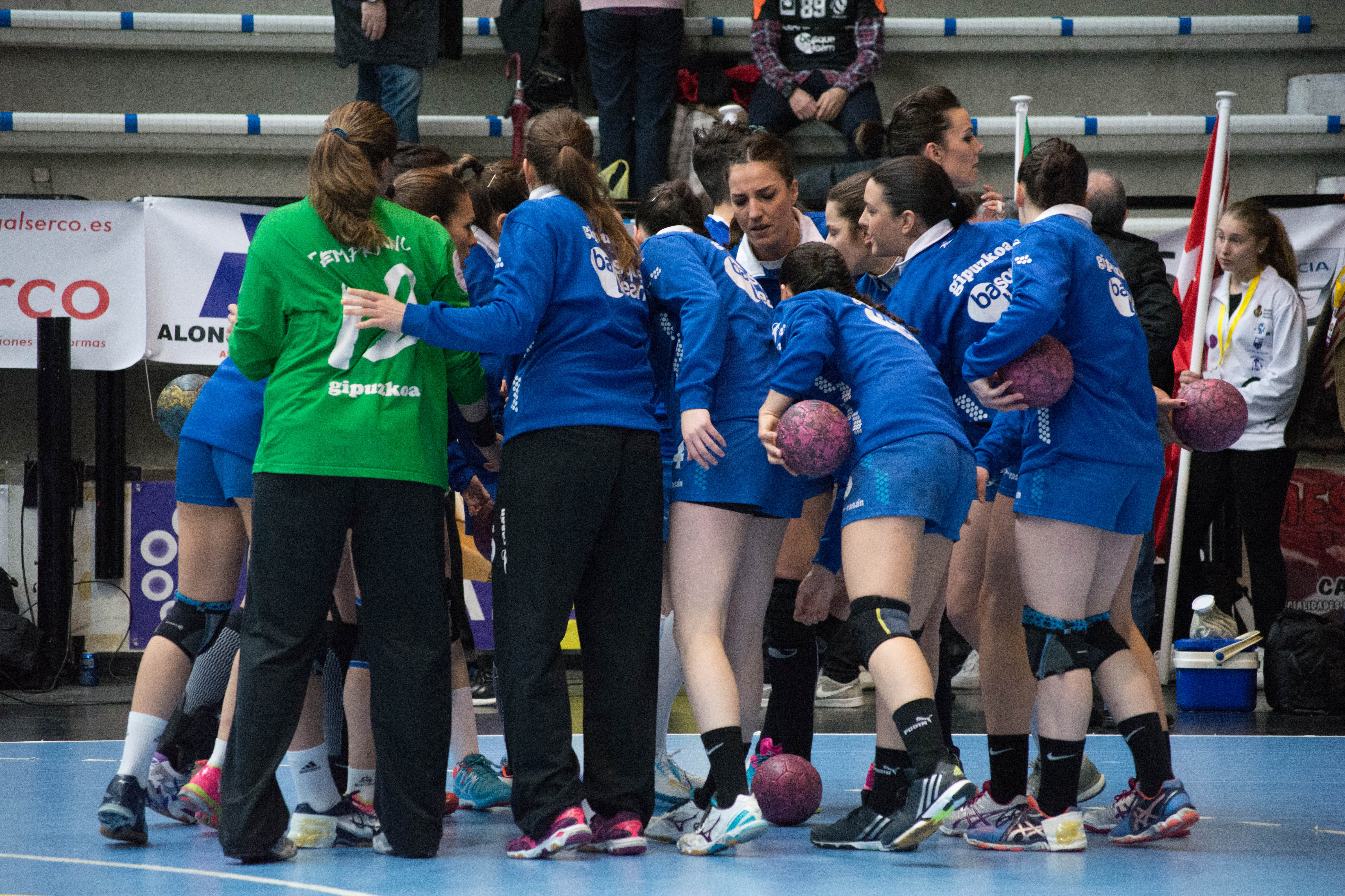 Copa De S. M. La Reina 2016 de Balonmano - O Porriño